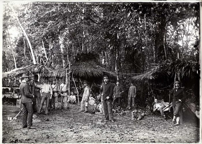 Soldiers at their bivouac in the forest